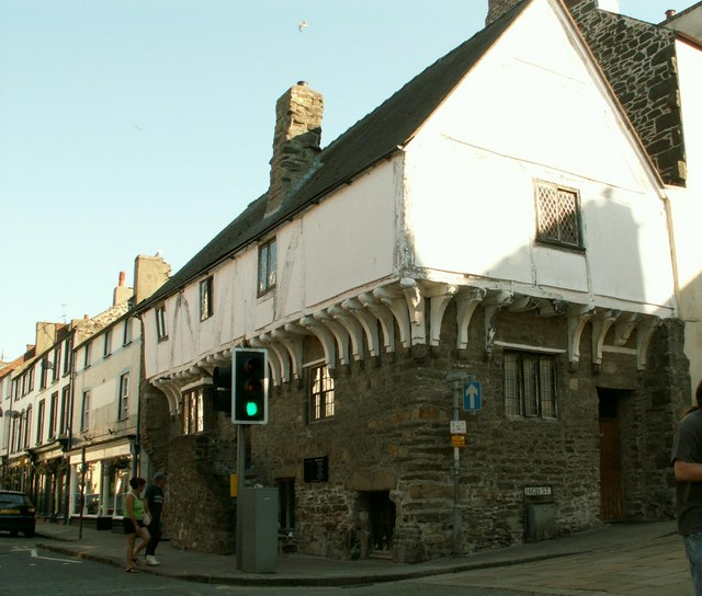 Aberconwy House, Conwy, North Wales. Aberconwy House is a fine and rare example of a timbered stone built merchant’s dwelling. It dates back to the 14th century and its different rooms depict different eras of the house’s past. It is cared for by the National Trust.